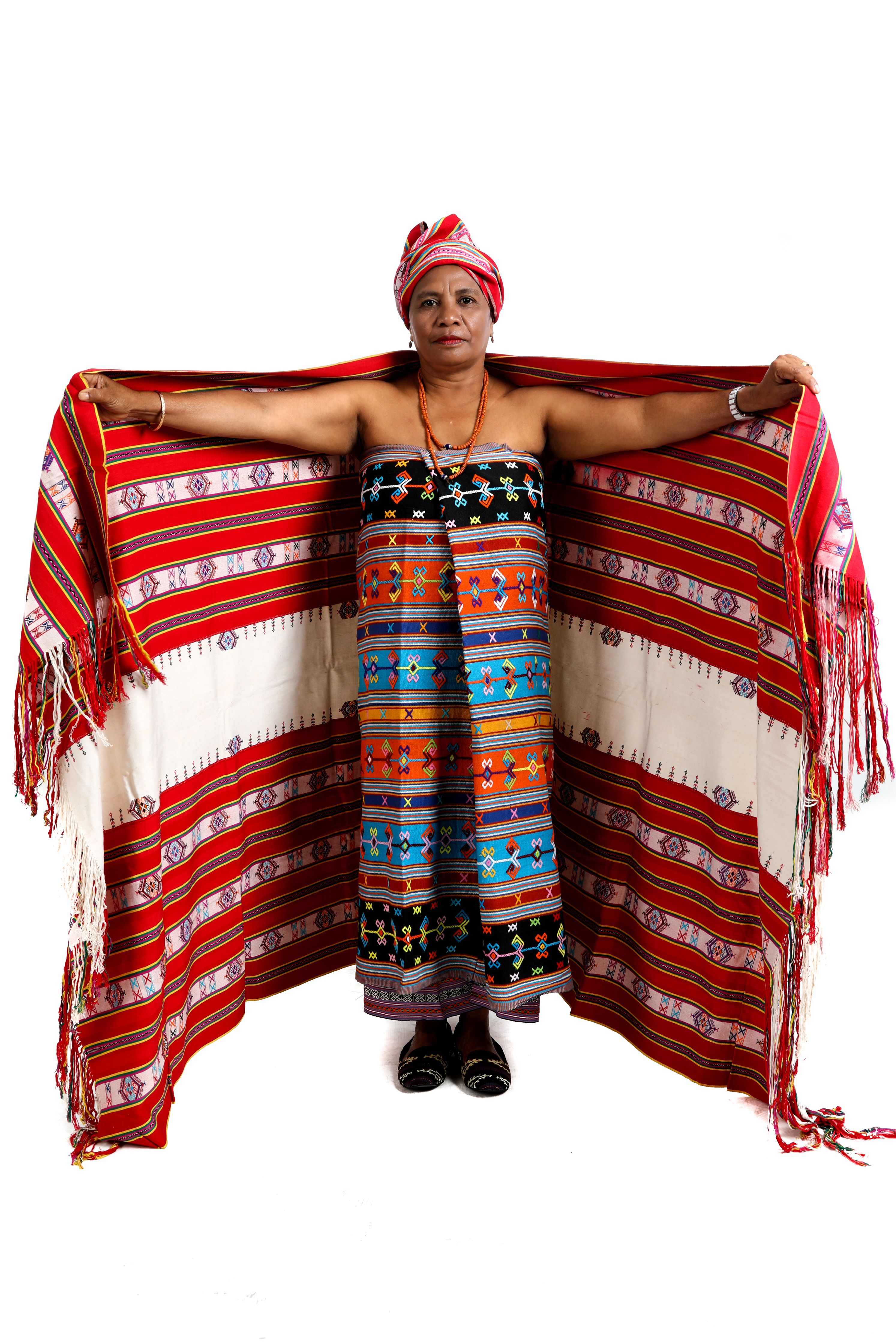 Aleta Baun, Activist, Jakarta, November 4, 2017 . She is an Indonesian environmental activist. (Eva Tobing for Wikimedia)